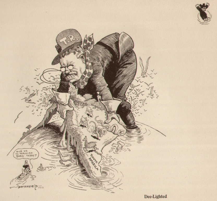 Theodore Roosevelt wrestles the entire continent of South America at once.